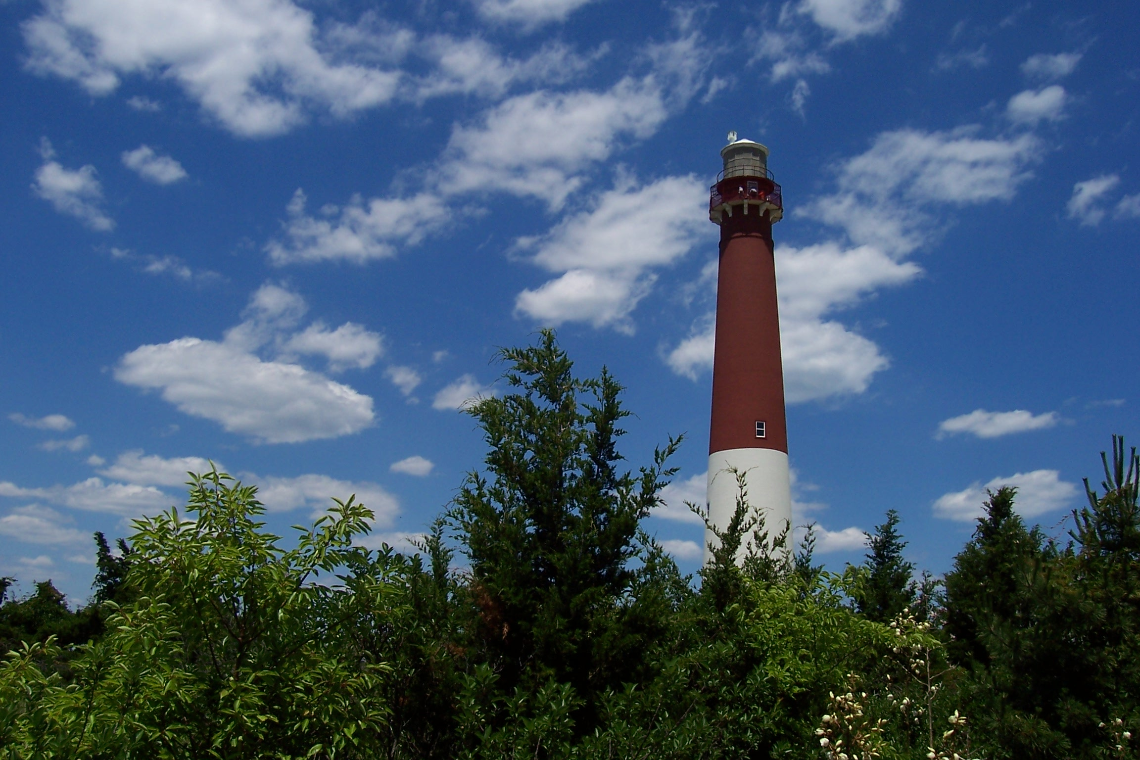 Barnegat Lighthouse in Barnegat Light, Long Beach Island, New Jersey.